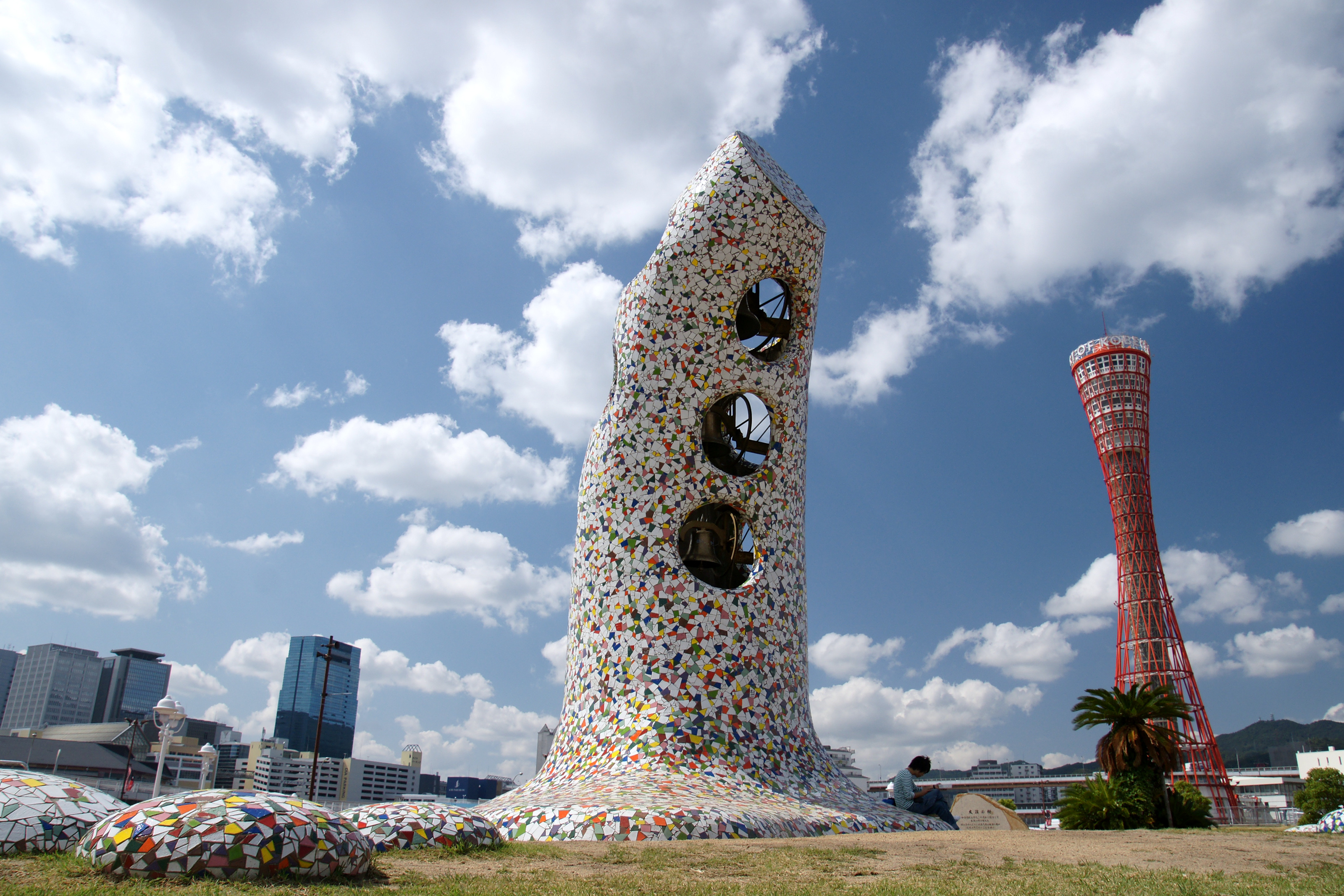 "The bell of Hortensia" in Meriken Park, Kobe, Hyogo prefecture, Japan